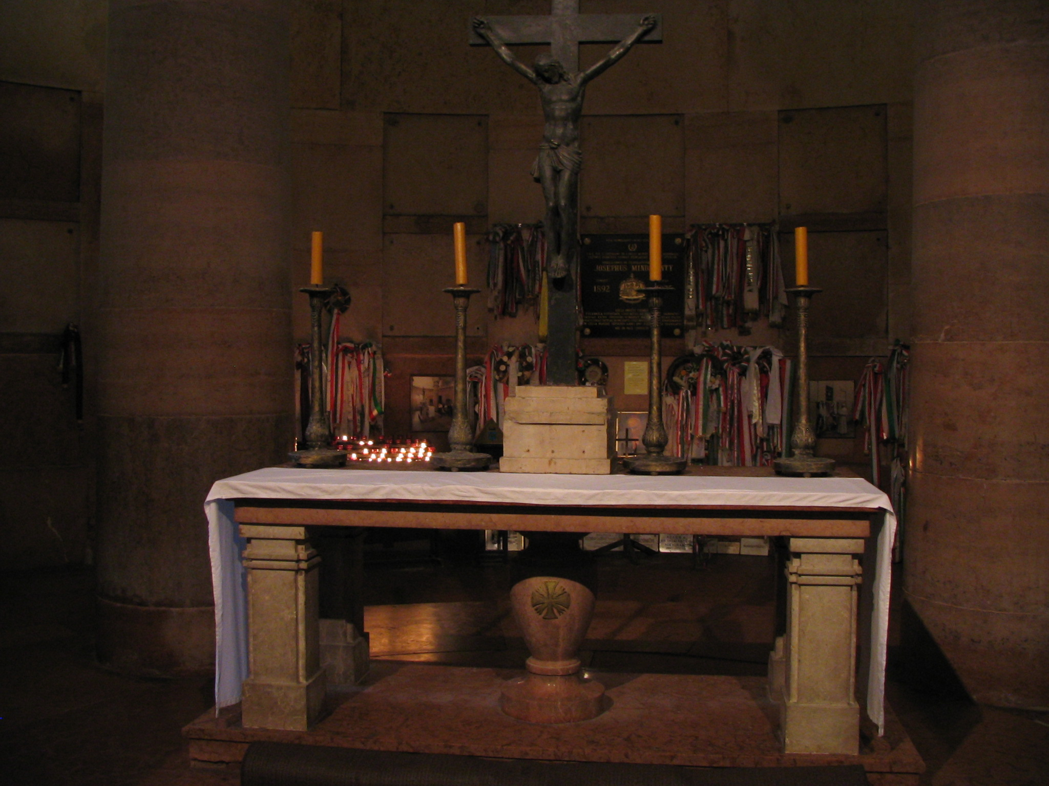 Tomb of Mindszenty József, Esztergom